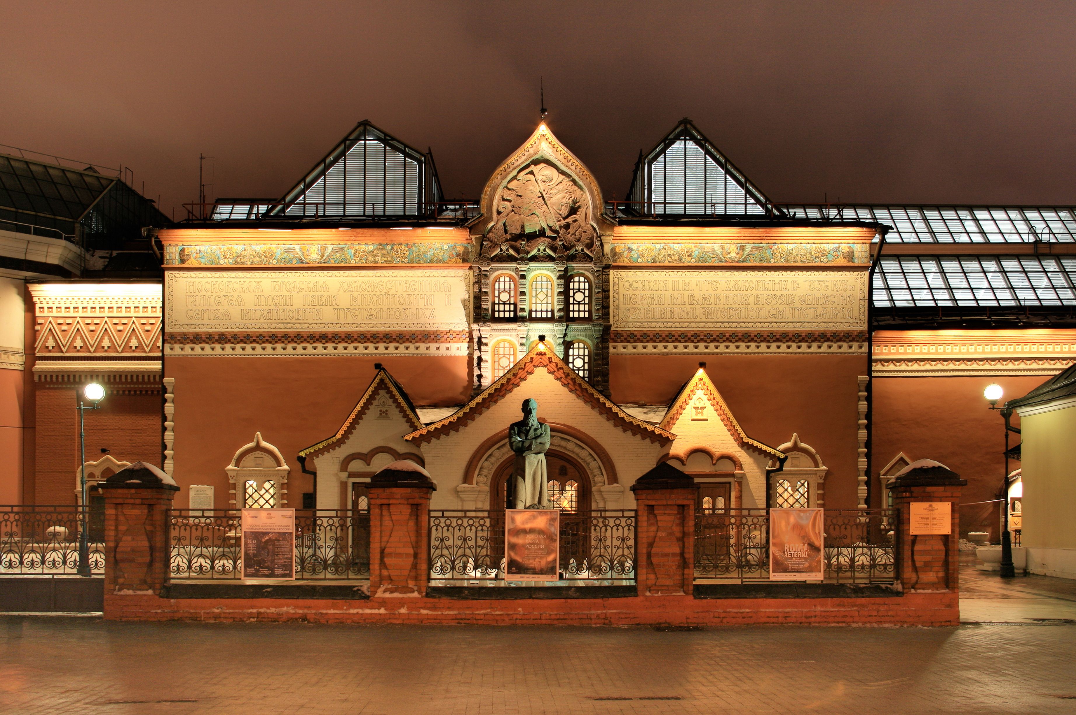 Main building of Tretyakov Gallery, Moscow, Russia